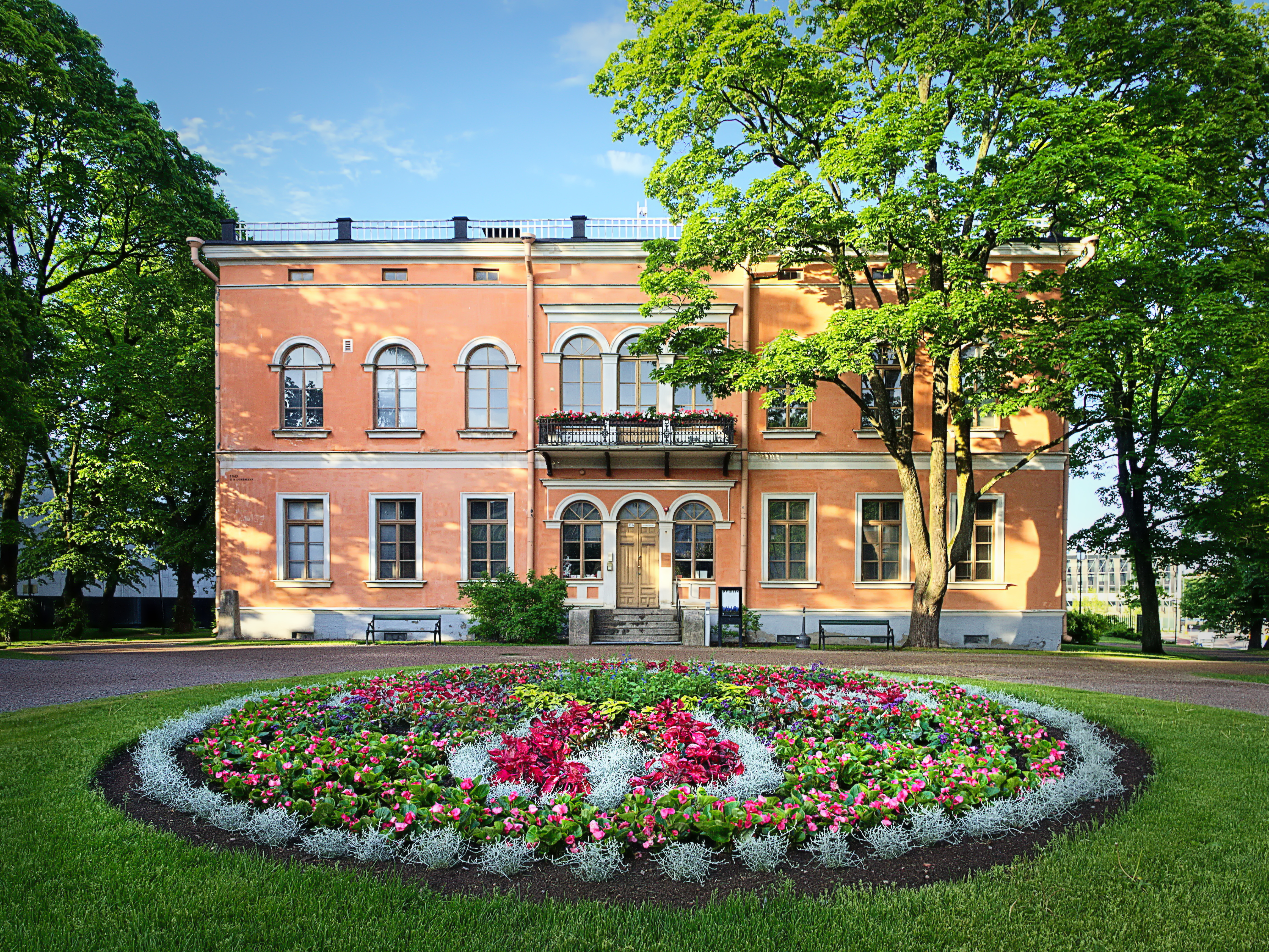 Hakasalmi Villa (built in 1834-46) represents Empire-era villa architecture. It was the home of Aurora Karamzin at the end of the 19th century and is now the city museum of Helsinki. This is a photo of a monument in Finland identified by the ID 'Hakasalmi Villa' (Q10715474)